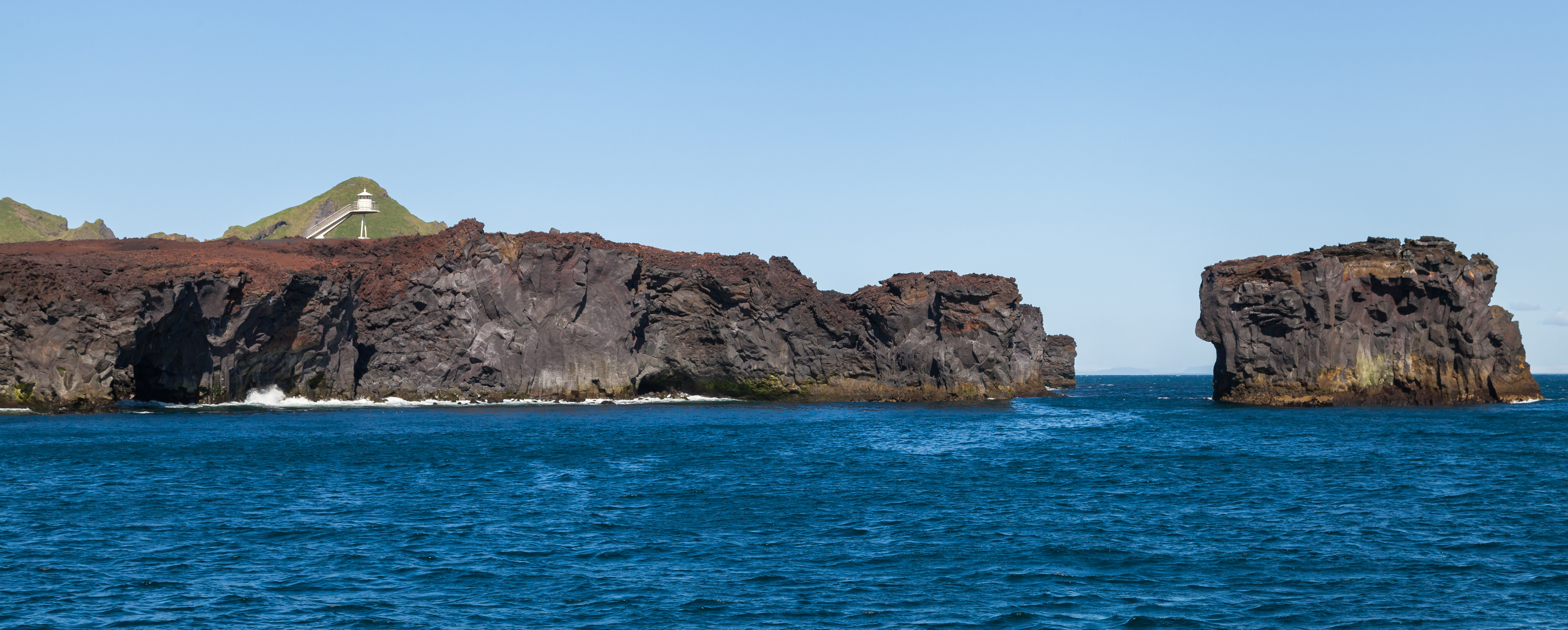 Urða lighthouse, Heimaey, Westman Islands, Suðurland, Iceland